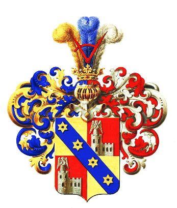 Coat of Arms of Bruni family